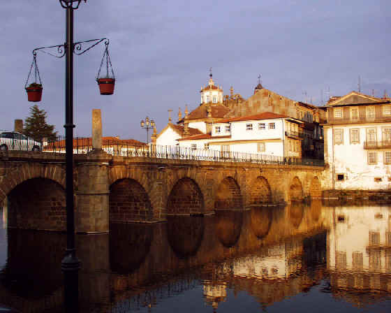 Roman bridge in Chaves. A photo taken in 2000 by Tulia Vogensen, wife of the author of the article on Chaves.